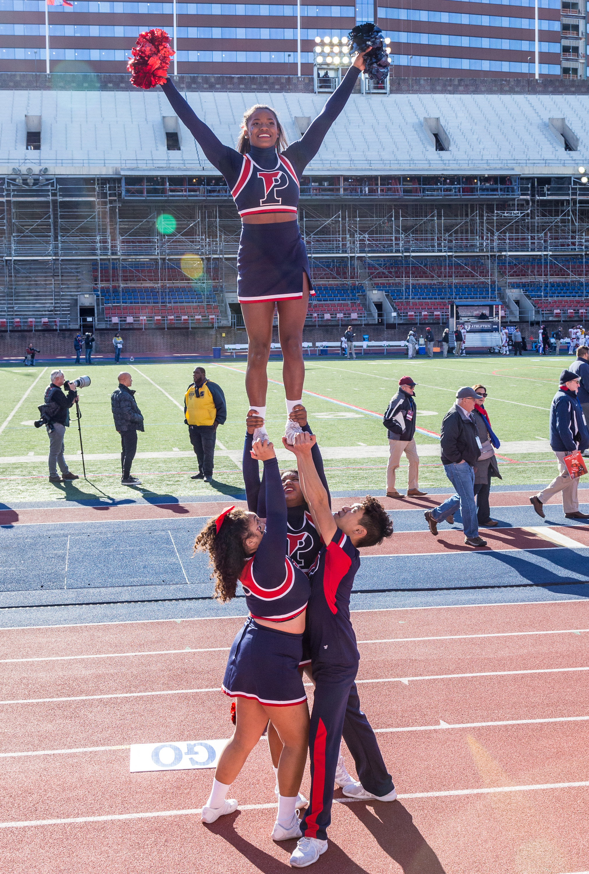 University of Pennsylvania cheerleaders. Penn vs. Cornell football, November 9, 2019. Penn won, 21-20.